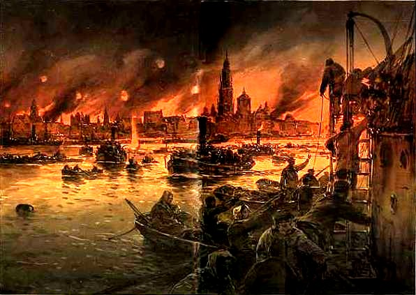 Painting of Willy Stöwer (1864-1931) showing the end of the Siege of Antwerp (1914).